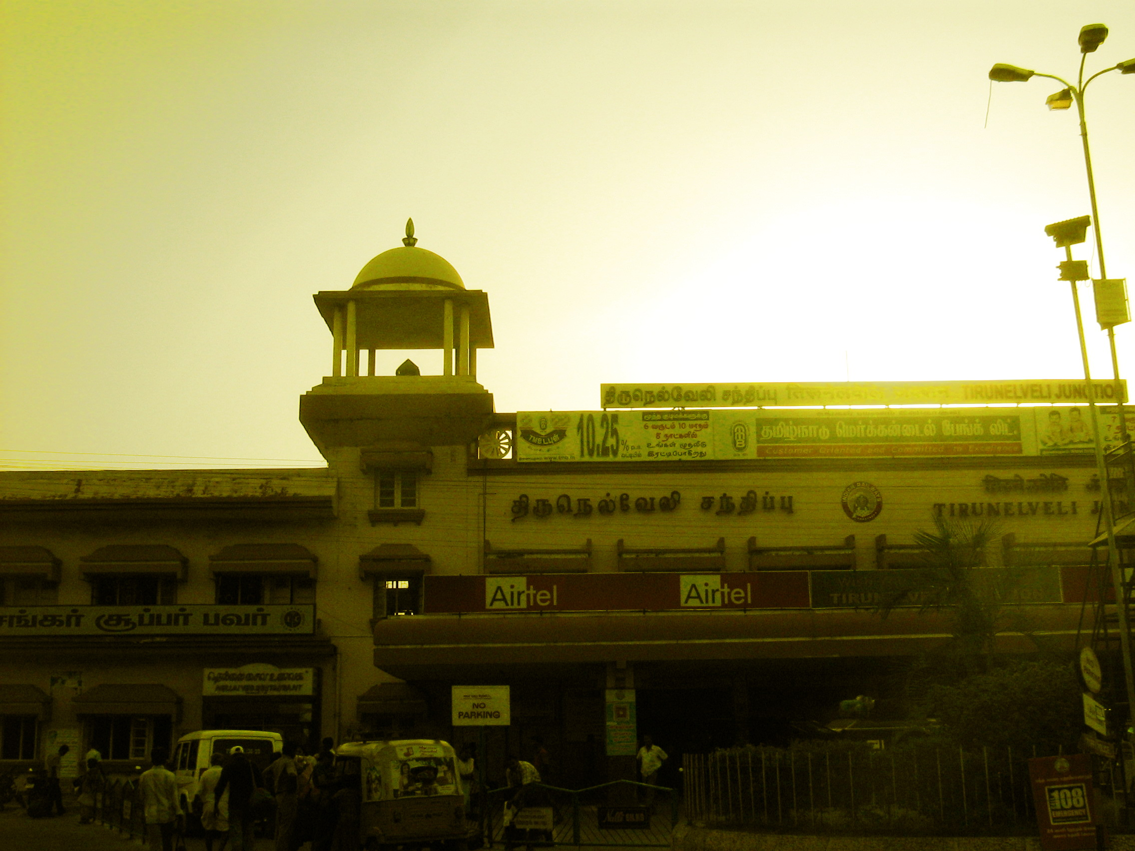 Entrance of Tirunelveli Railway Station